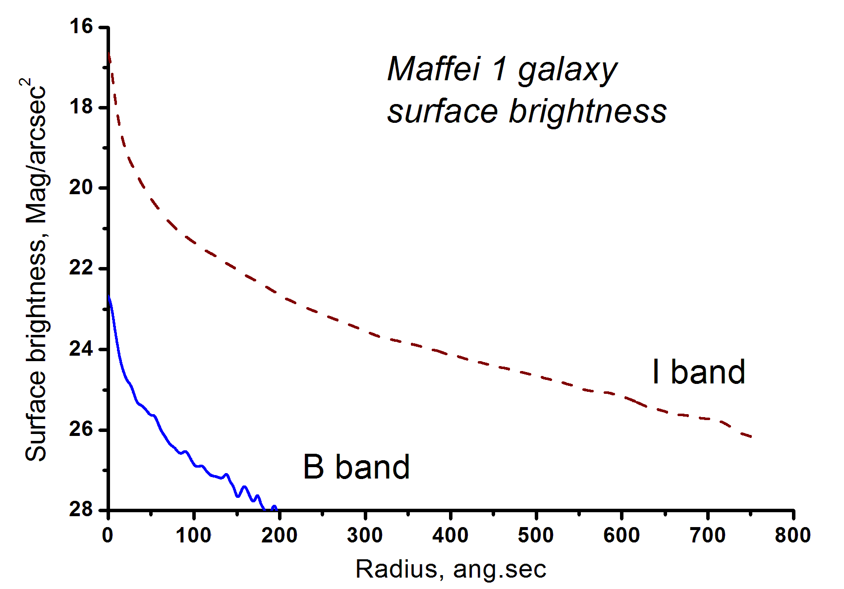 The surface brightness profile of the Maffei 1 galaxy in the two photometric bands. The Source of data: Buta, R. J.; McCall, M. L. (1999). "The IC 342/Maffei Group Revealed". The Astrophysical Journal Supplement Series 124: 33.